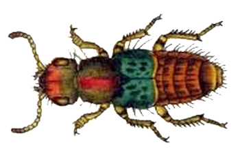 Abemus chloropterus